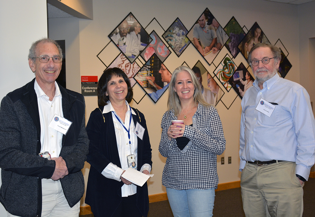 The HIV DRP hosted the 23rd Annual Think Tank Meeting on April 3, 2019, at the National Cancer Institute at Frederick. Covering topics related to HIV, AIDS, and retrovirus biology, this event brings together investigators from NCI, NIH, other government agencies, and academic institutions in the mid-Atlantic region for a stimulating day of short presentations and discussion. Since its inception in 1998, the HIV DRP Think Tank Meeting has been very successful at fostering collaborations among these intramural and extramural investigators in the retrovirology community.